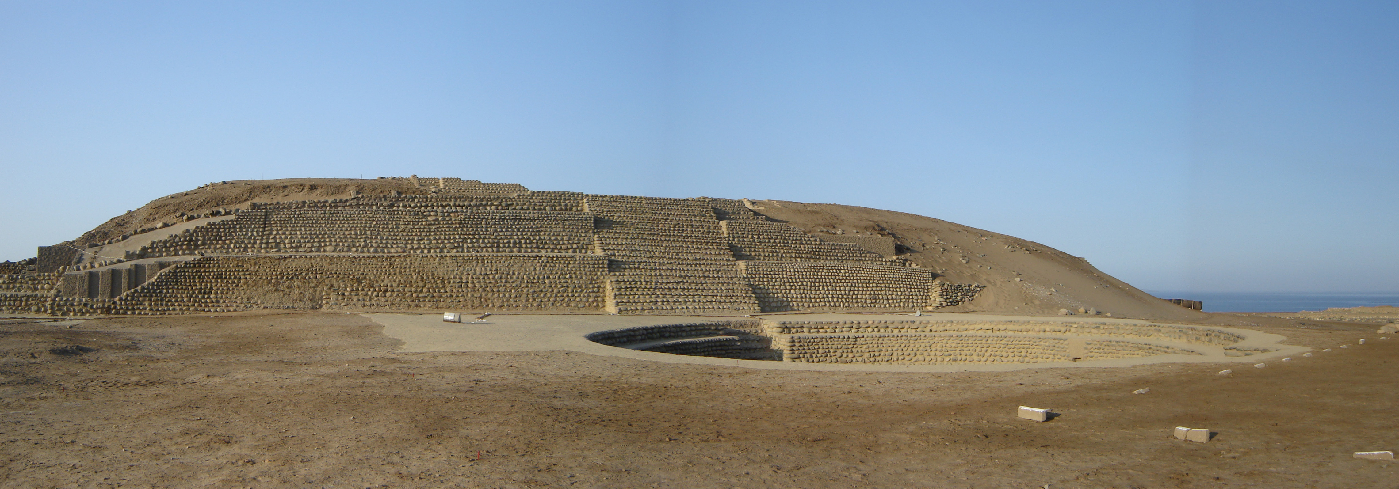 Panoramic view of the Late Temple at Bandurria archaeological site. It includes a truncated pyramid and a circular sunken plaza.